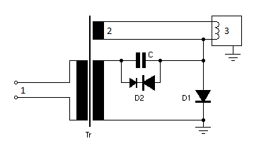 1: AC in 2: heating filament output 3: heating filament inside magnetron Tr: transformer C: capacitor D1: high voltage rectifier D2: Transient-voltage-suppression diode